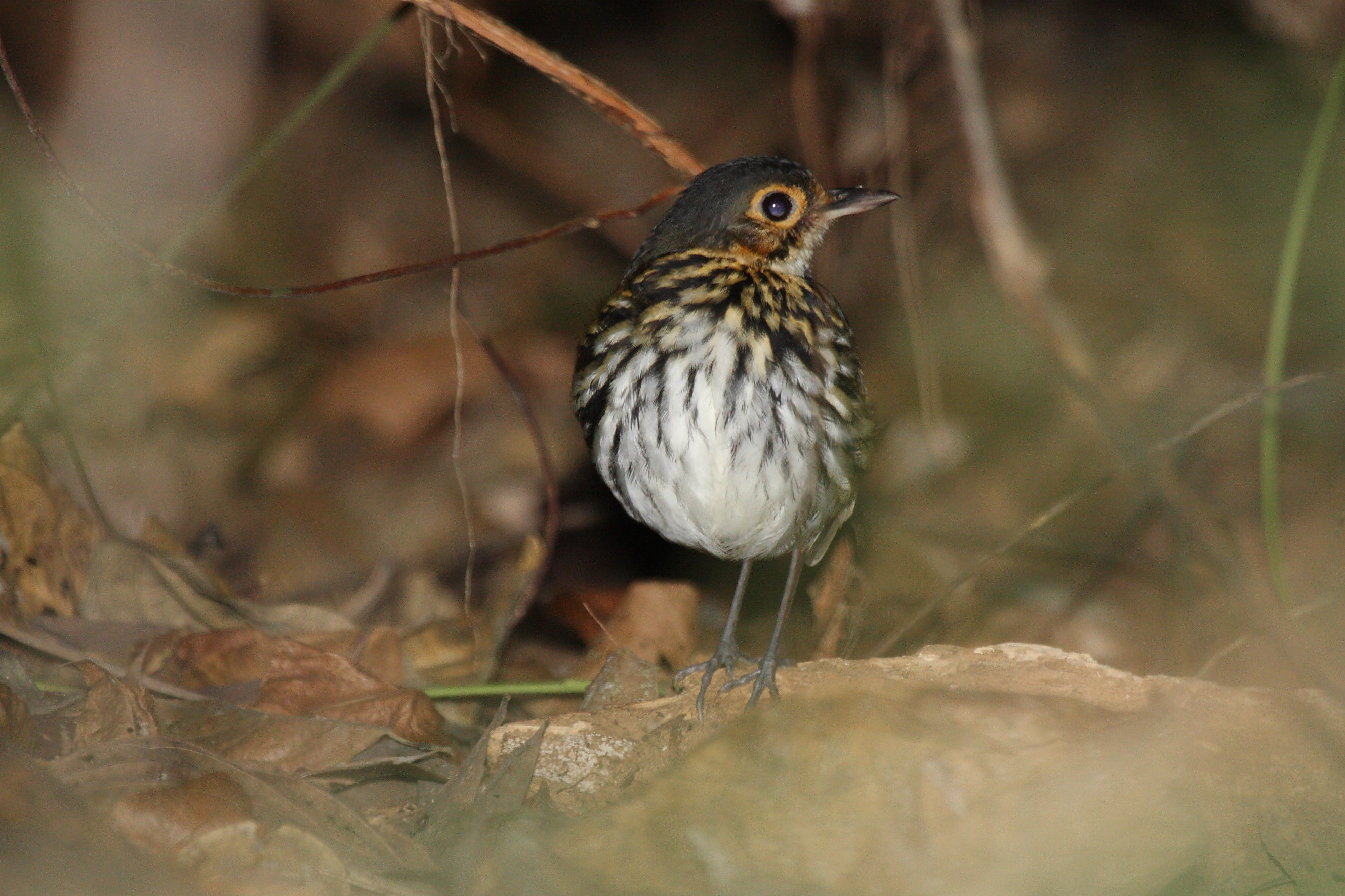 Streak-chested Antpitta (Hylopezus perspicillatus). Photographed at Parque National Soberania, Pipeline Rd, Gamboa, Panama.